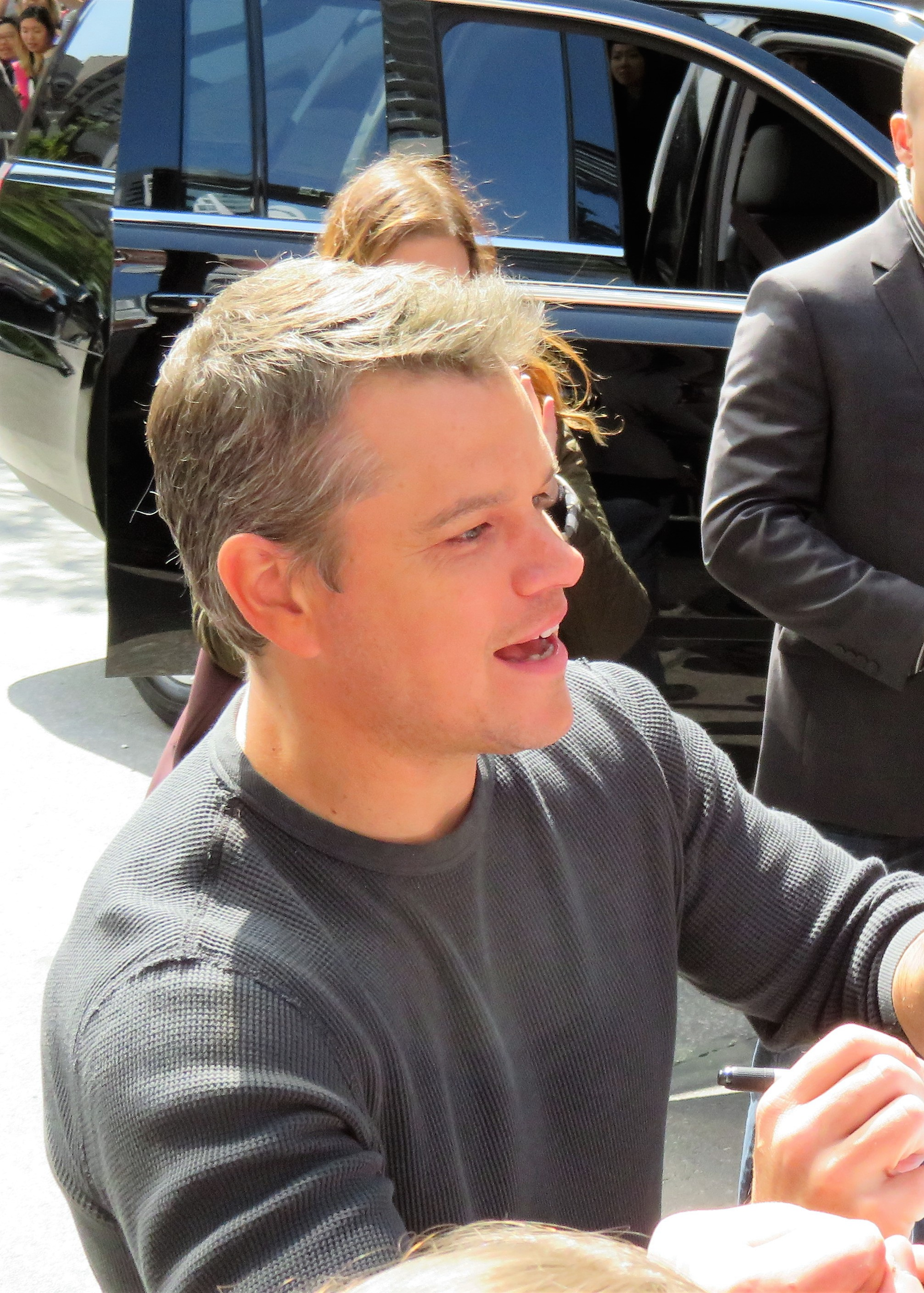 Matt Damon at the press conference of Suburbicon, 2017 Toronto Film Festival